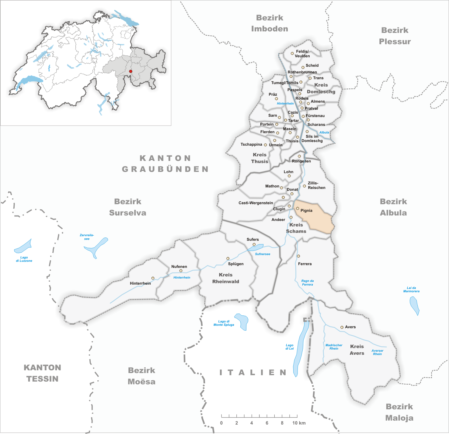 Municipality Pignia